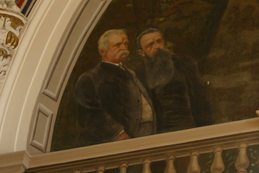 The two main promoters of the Policlinico Umberto I in Rome, Guido Baccelli and Francesco Durante, are represented in one of the frescoes of the Chapel of the hospital.